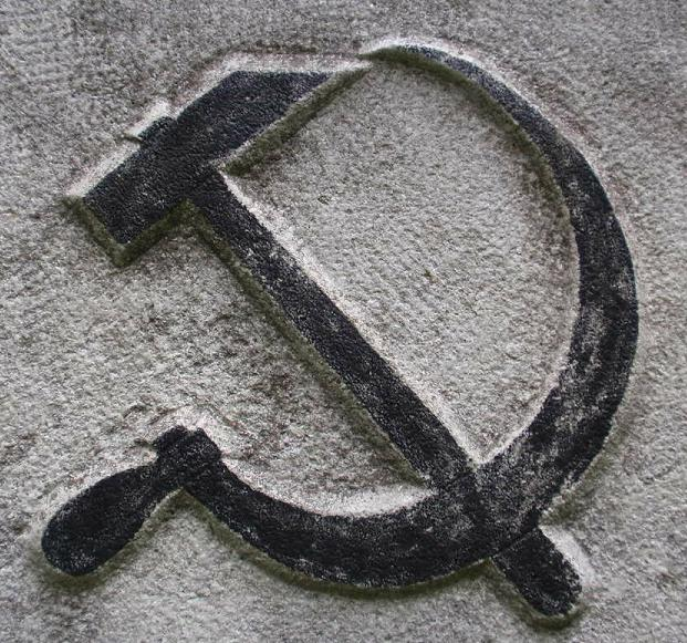 Hammer and sickle